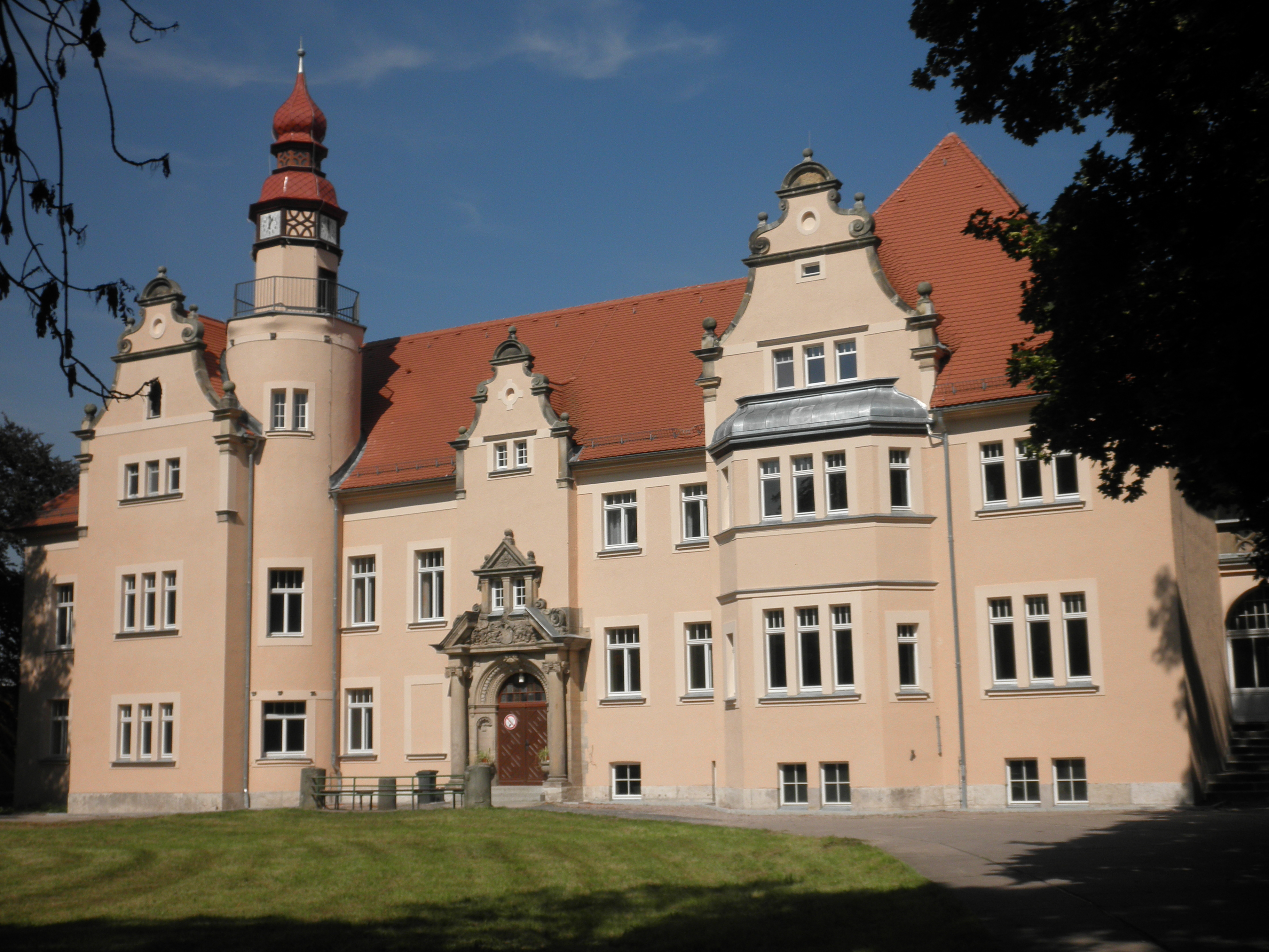 Former Castle in Schwerstedt (bei Weimar) in Thuringia